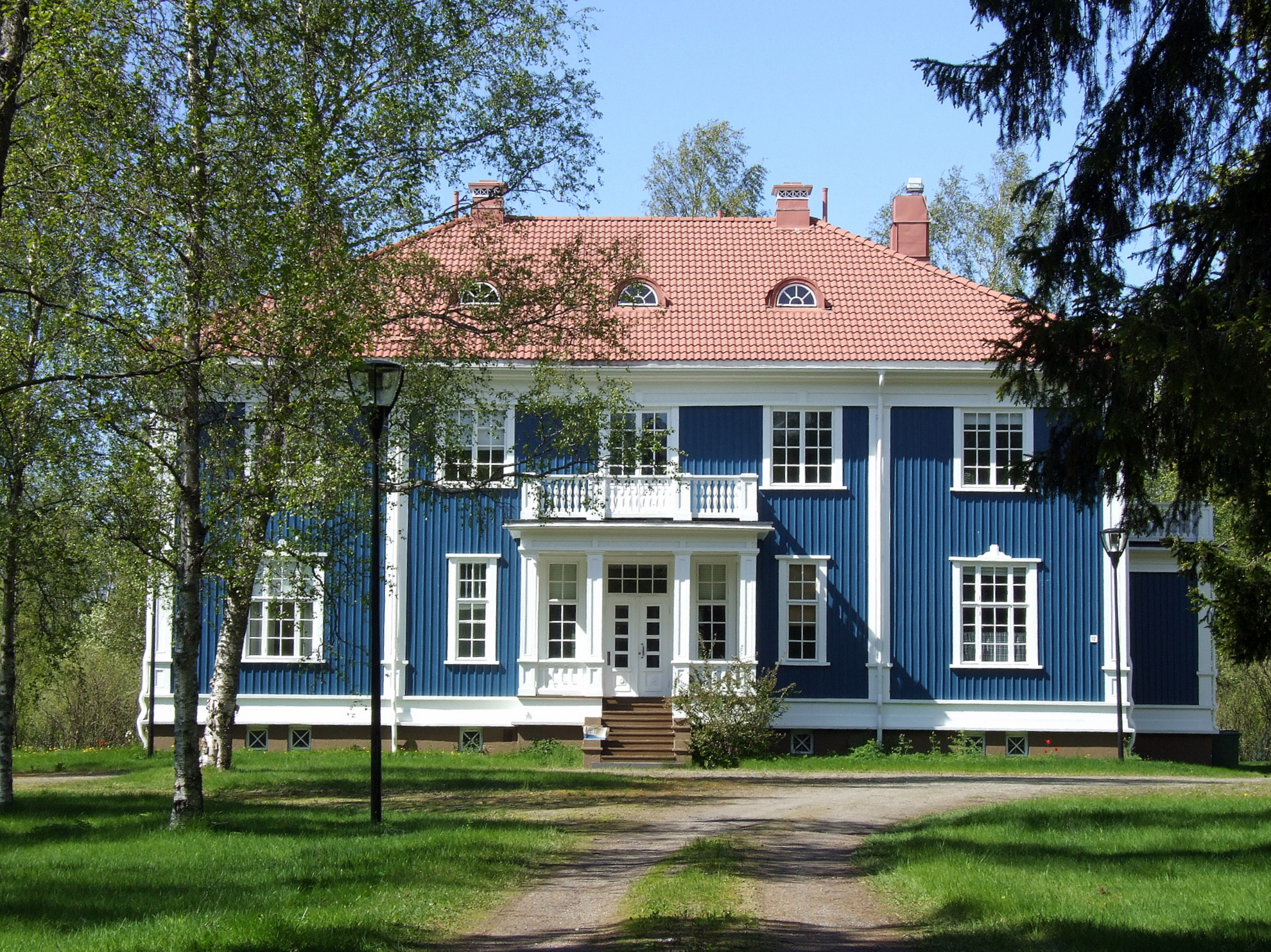 The residence for the CEO of Kemi Oy in Karihaara, Kemi, Finland. The building was designed by architect Birger Federley and built in 1921